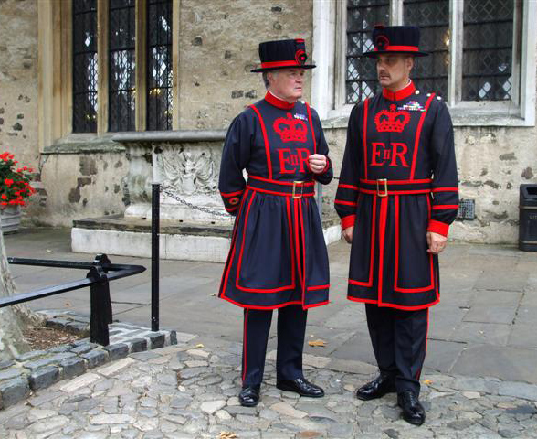 Beefeaters, Tower of London Pictured within the grounds